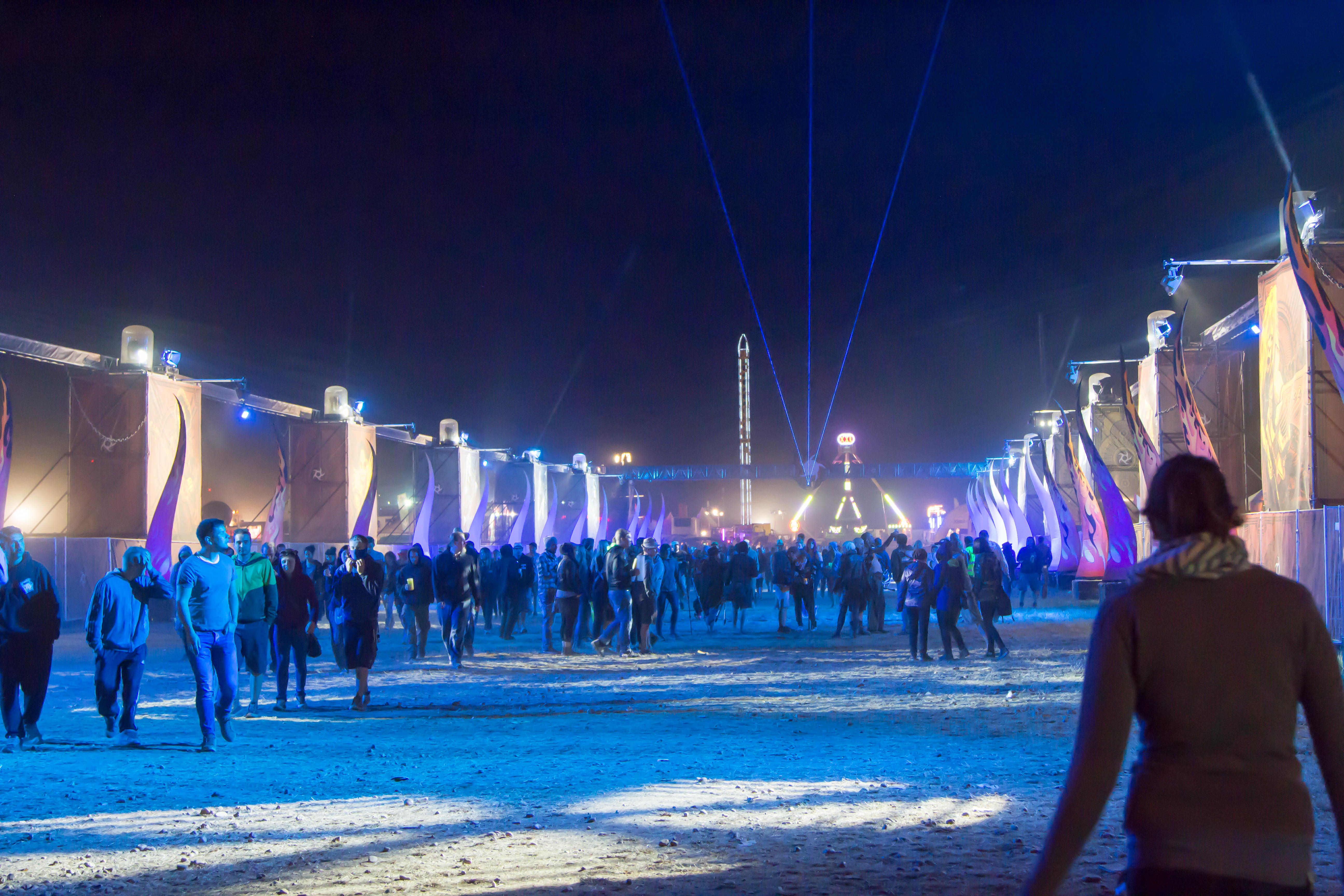 Highway to Hell, dusty path between the Red Stage and the Blue Stage at Nova Rock 2014